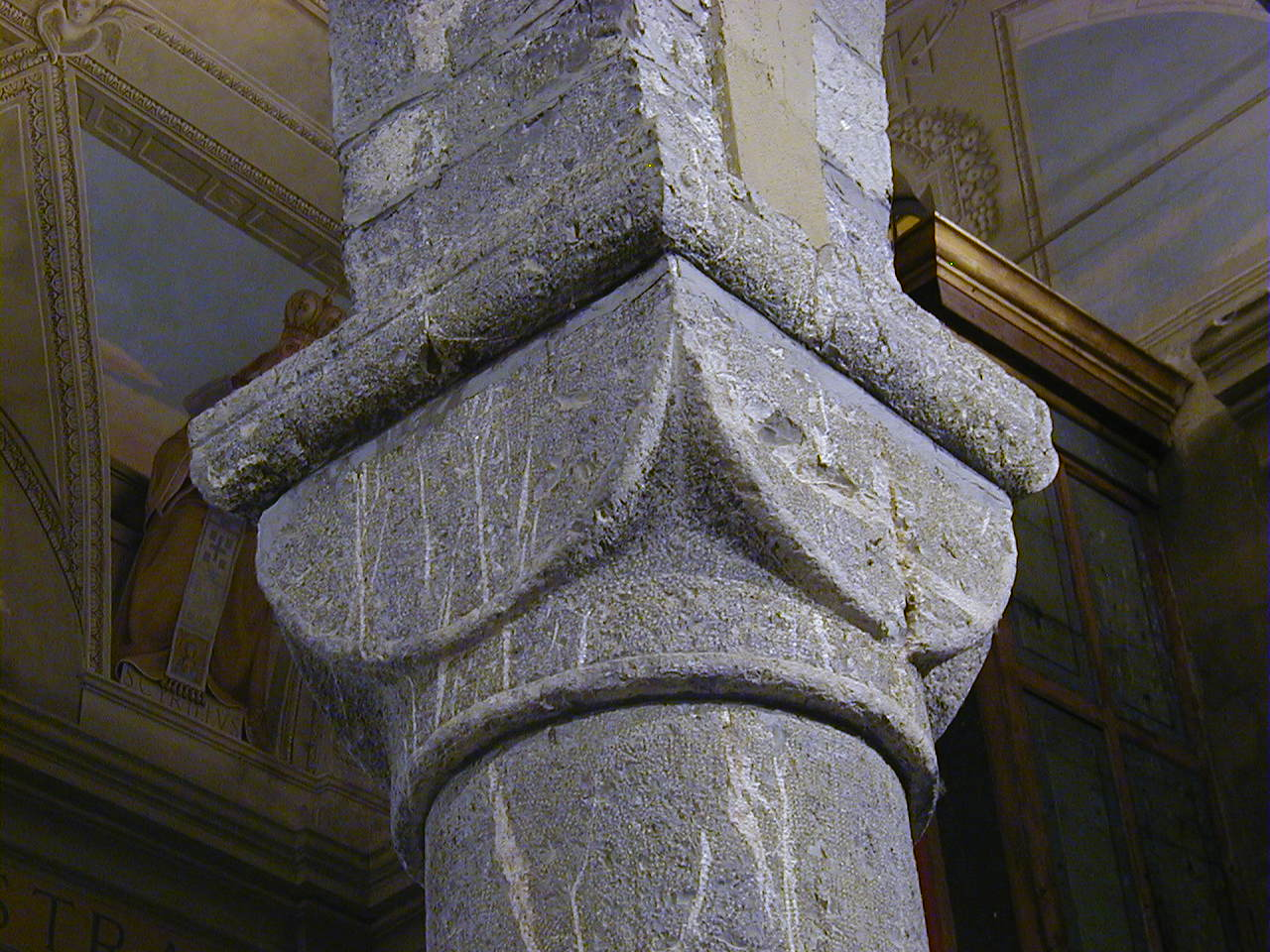 Romanesque cubic capital in the church of San Michele Arcangelo, Diano Arentino, Liguria, Italy, early 15th century.